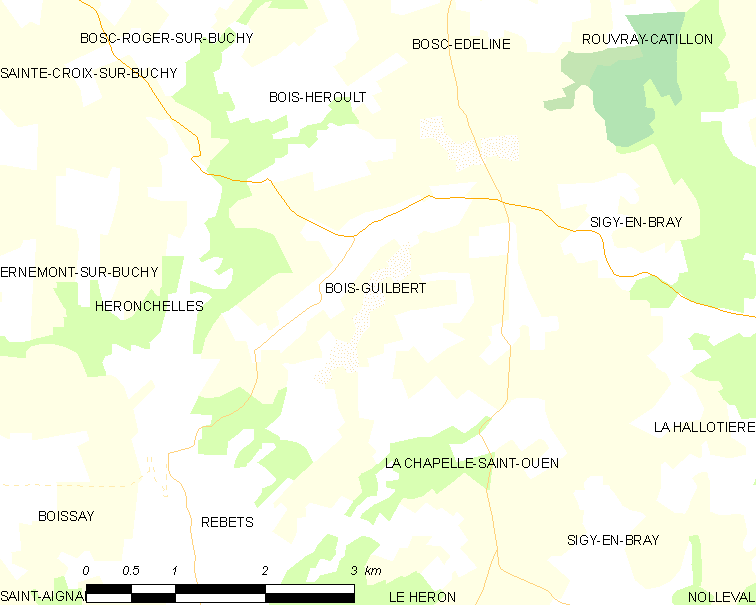 Map of French municipality Bois-Guilbert